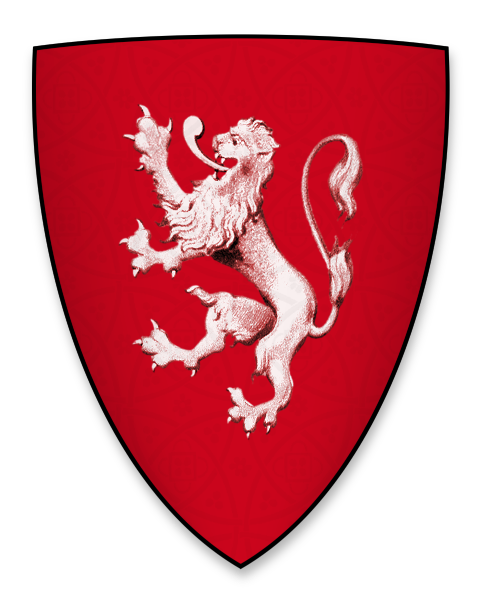 Coat of arms of William de Mowbray, Lord of Axholme Castle